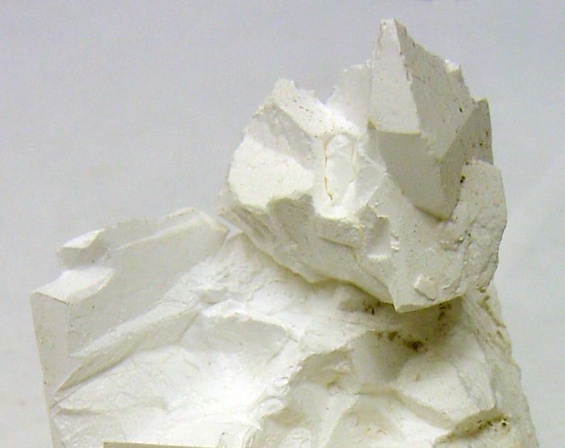 Arcanite Close view. Mineral collection of Brigham Young University Department of Geology, Provo, Utah. Photograph by Andrew Silver. BYU index 10-7018.